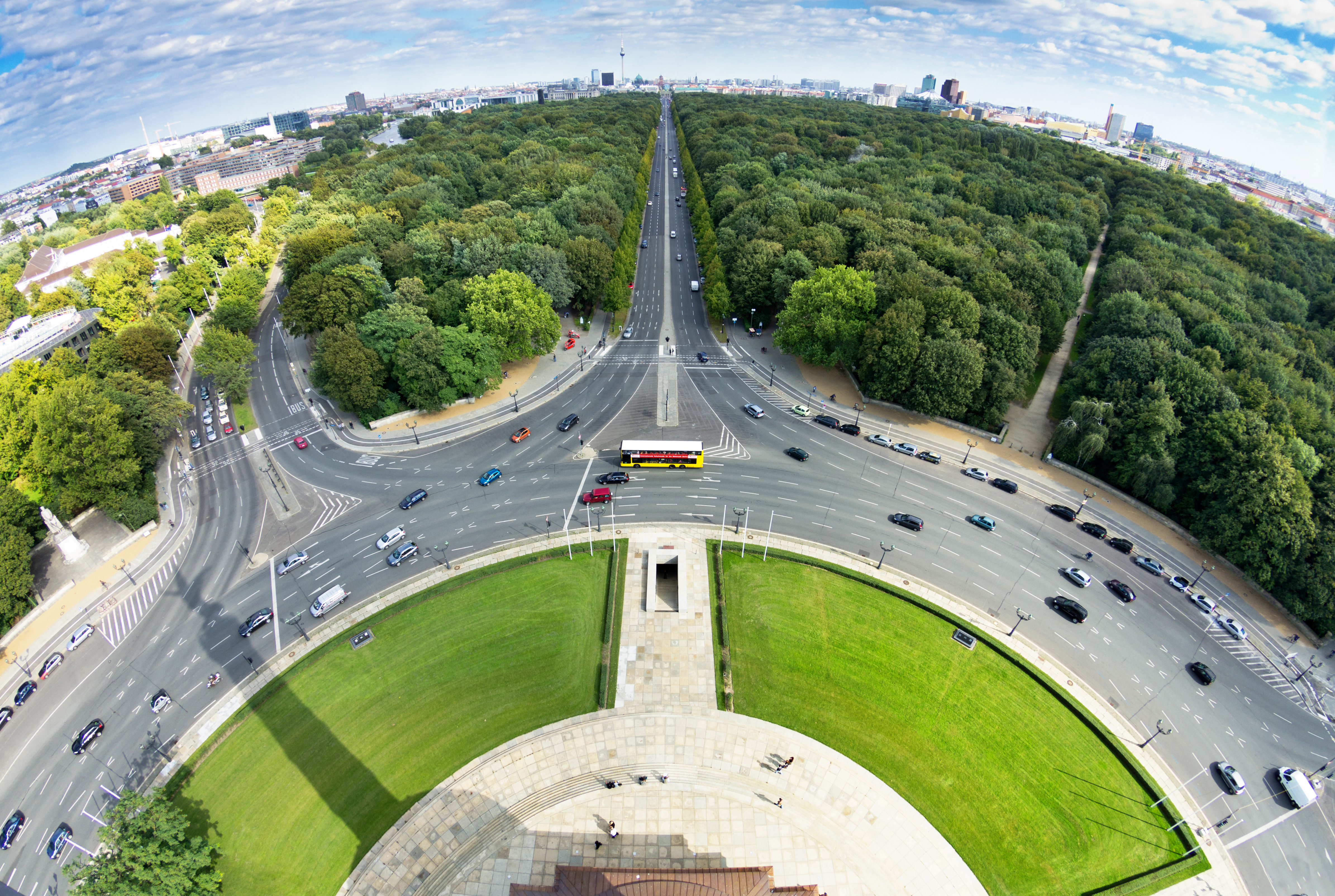 Viev from the platform of the Berliner Siegessäule